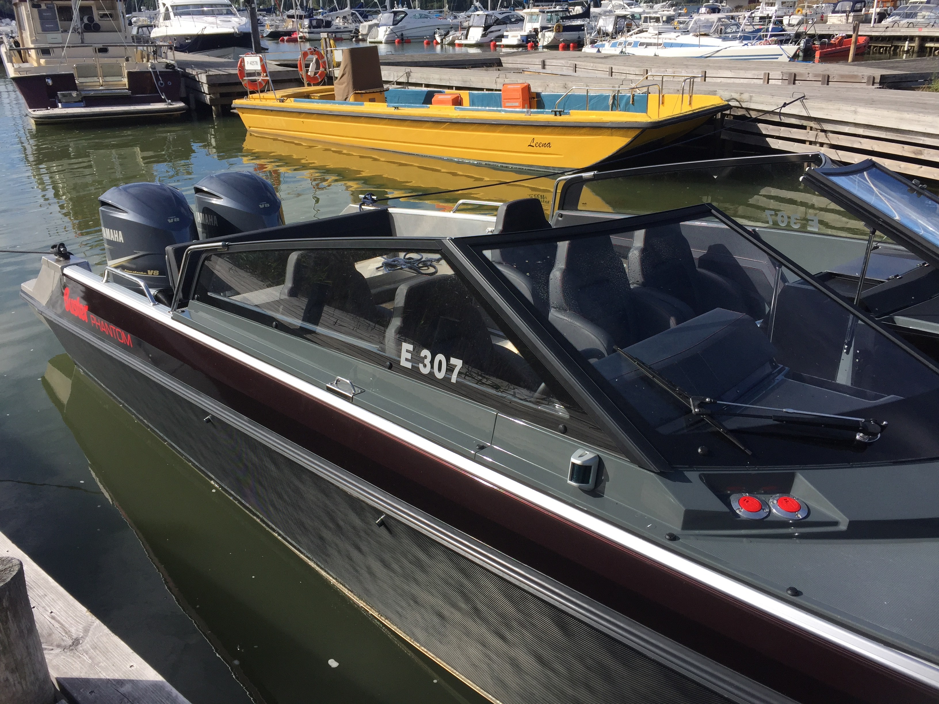 The 31 foot Buster Phantom that can carry ten passengers is the Finnish manufacturer’s largest and fastest aluminium boat yet. Phantom can be equipped with twin outboard engines. For the twin engine arrangement, the most powerful option is a combination of two 350 hp Yamaha V8 engines.